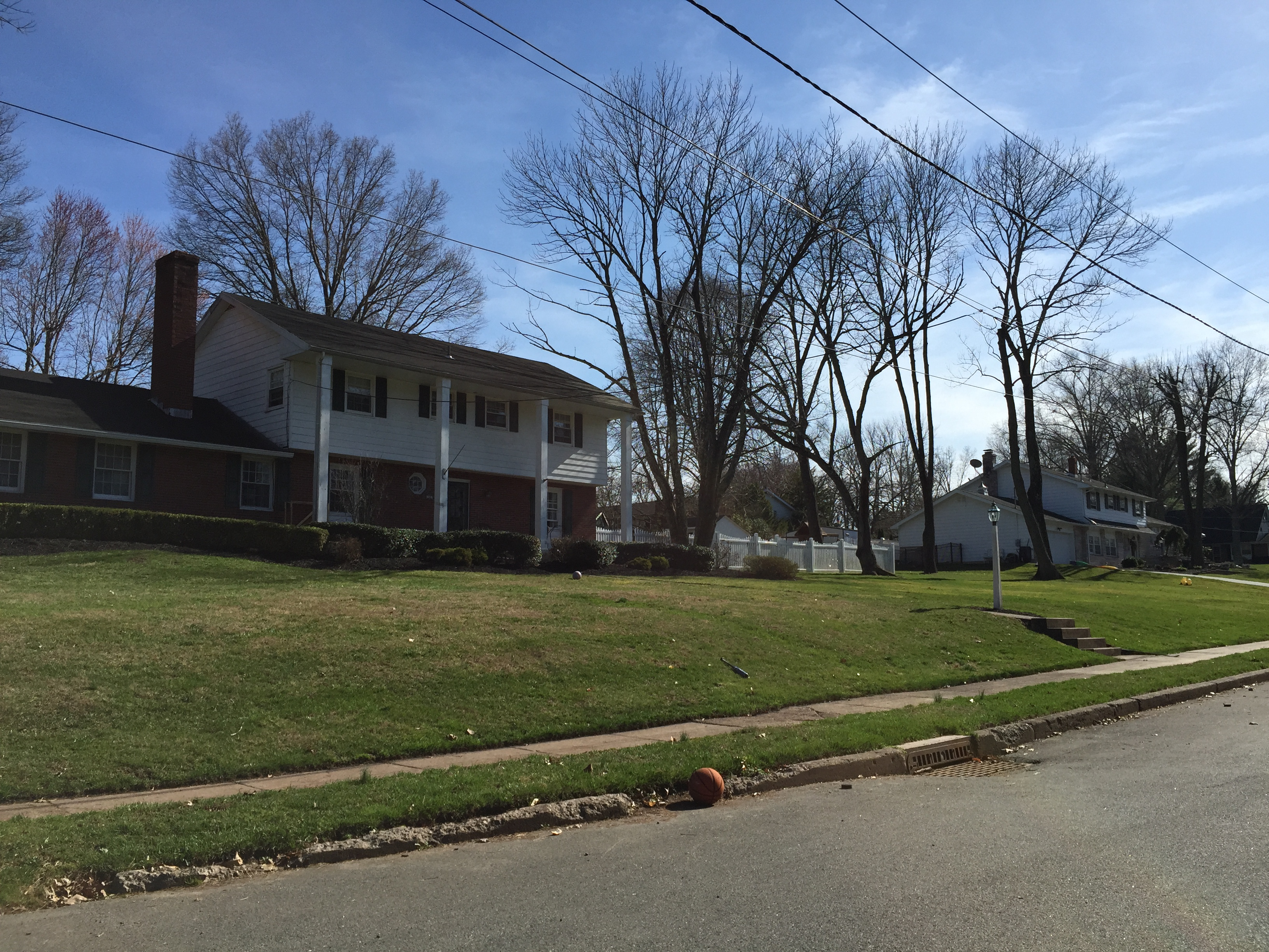 Homes along Windybush Way in the Mountainview section of Ewing, New Jersey